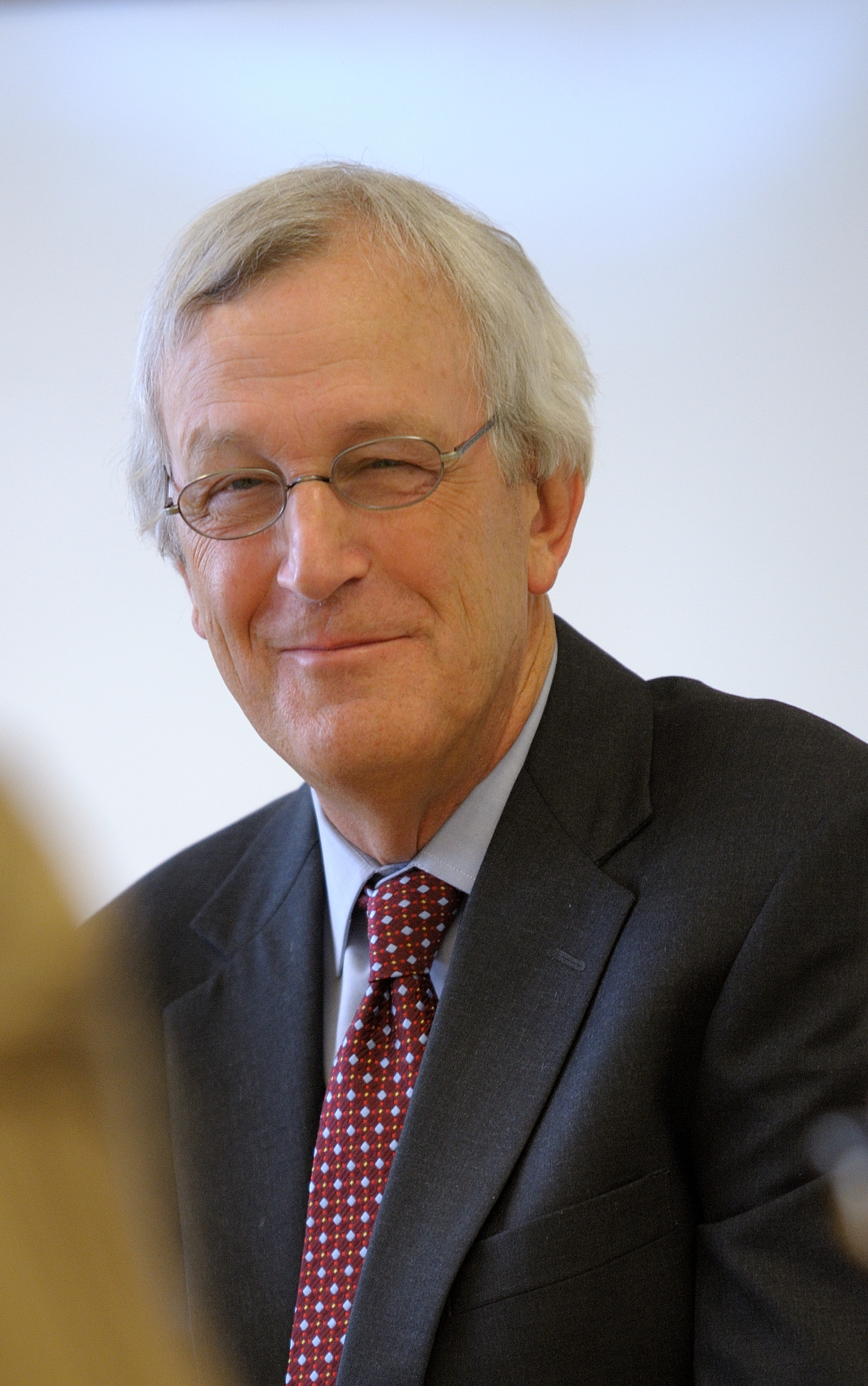 B. Joseph White, President Emeritus of the University of Illinois and James F. Towey Professor of Business and Leadership. Dean Emeritus and Professor Emeritus of the Stephen M. Ross School of Business at the University of Michigan.